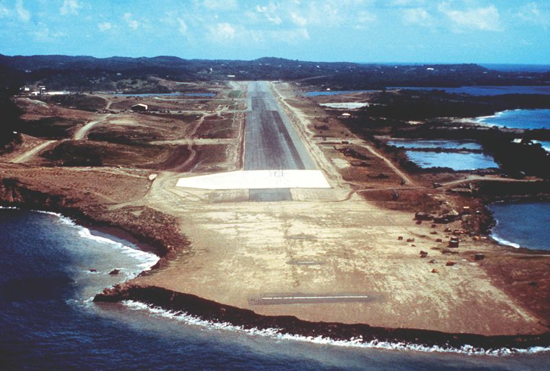 Point Salinas International Airport, Grenada